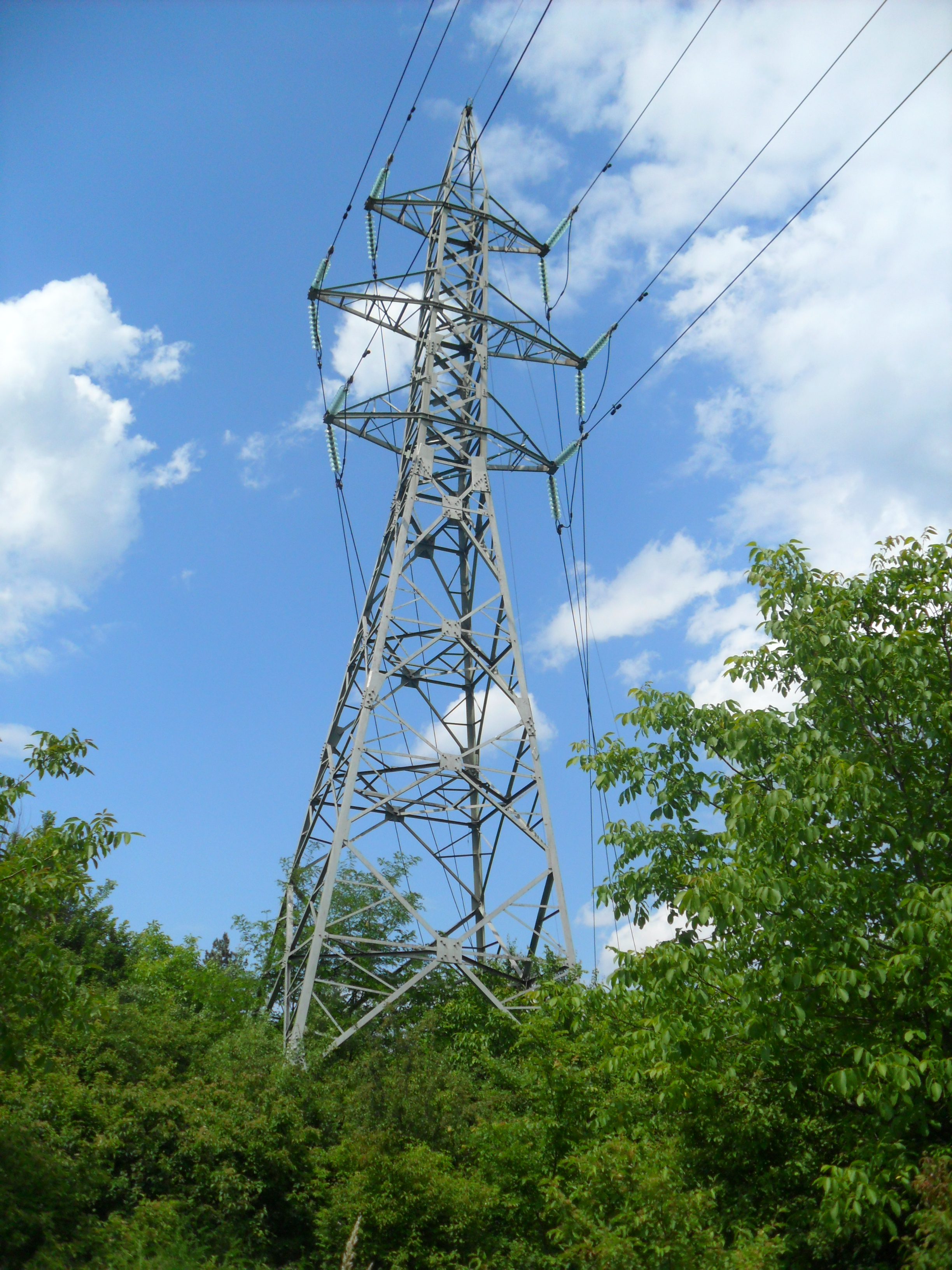 Transmission tower in Veliko Tarnovo, Bulgaria